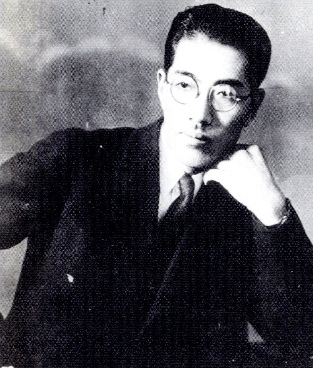 Yoshi Eguchi